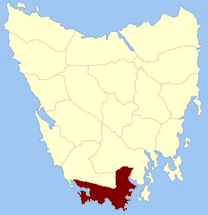 Location of the land district (formerly county) within Tasmania.